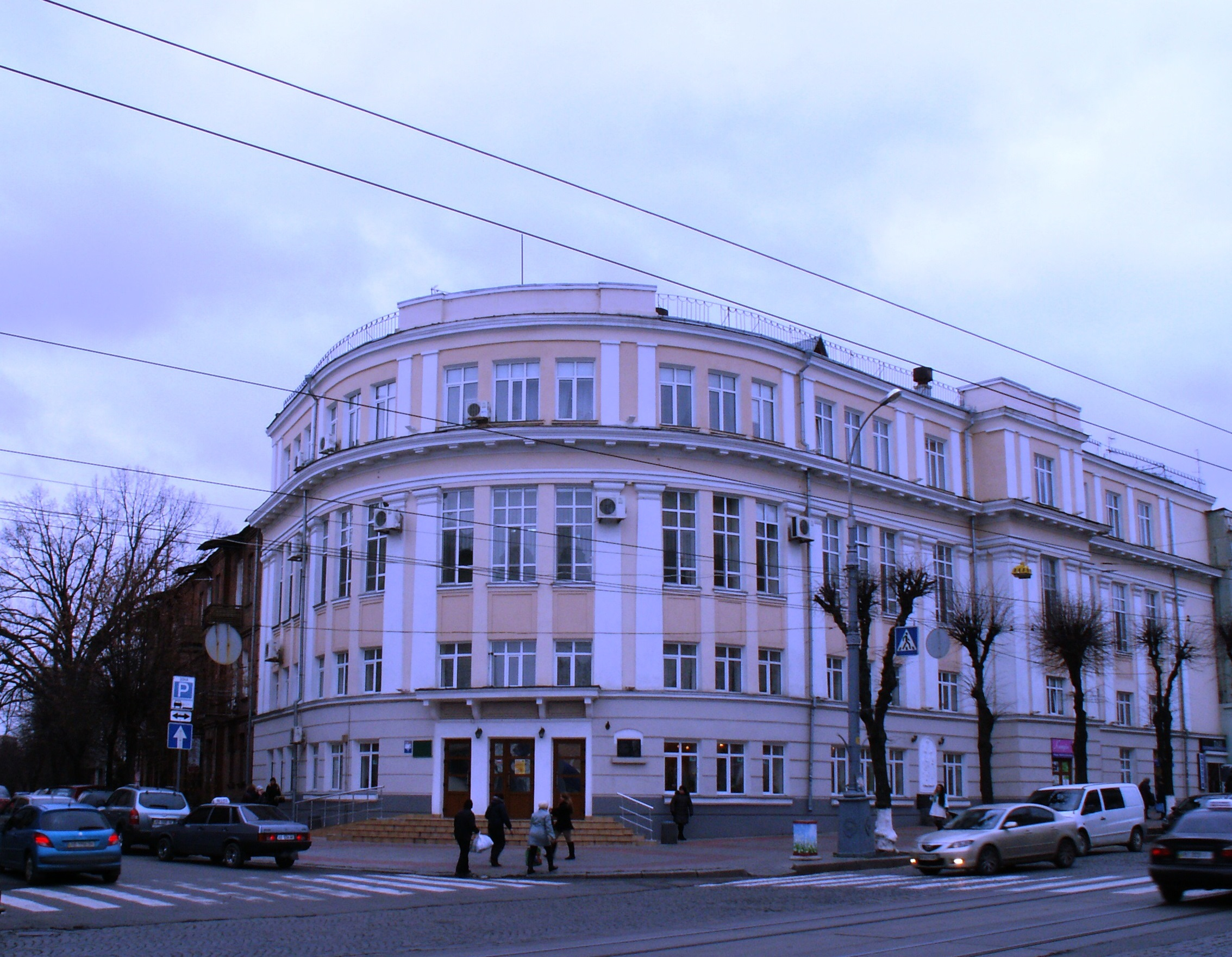 Vinnytsya, Soborna str. 73